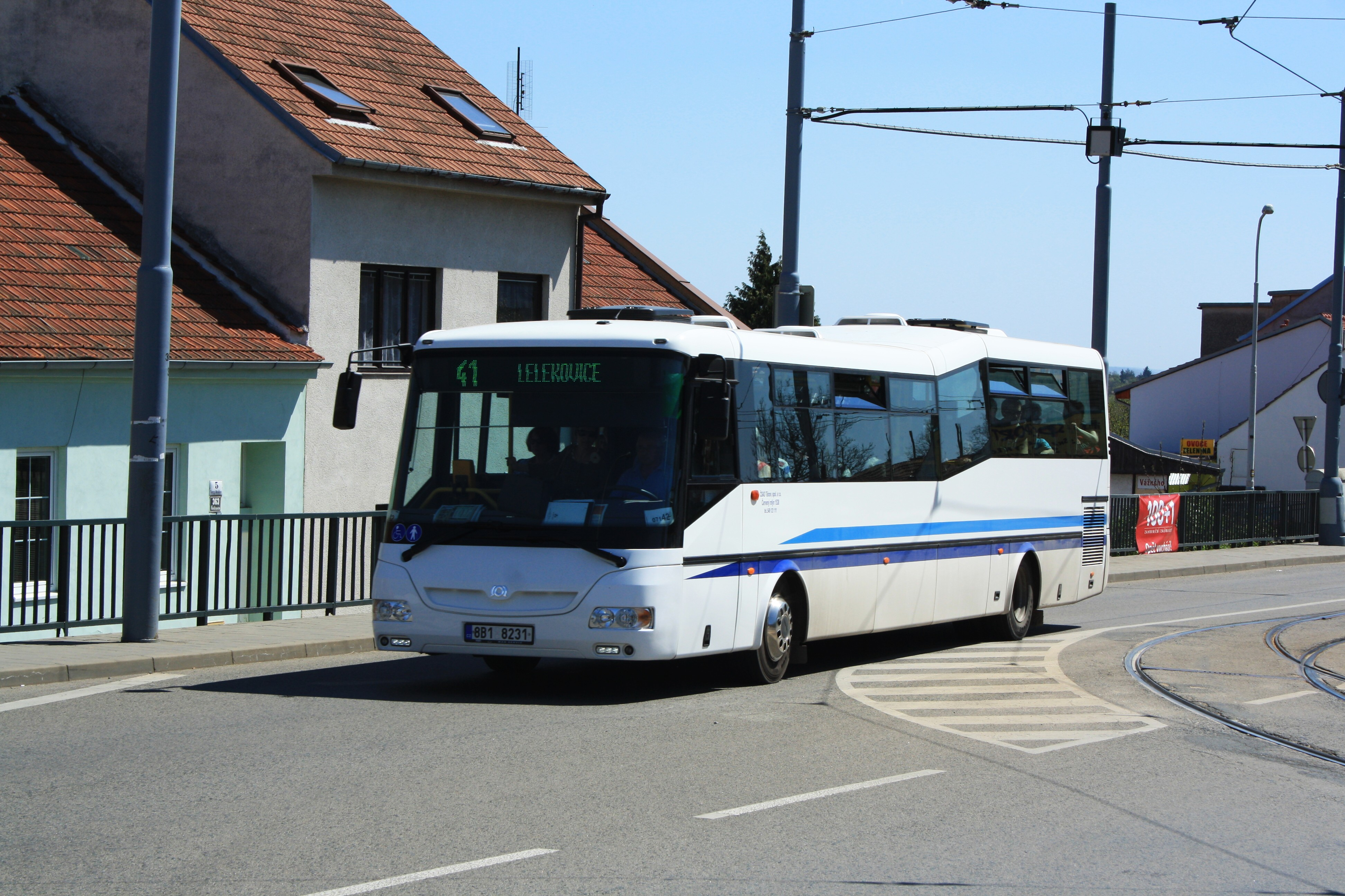 SOR BN 12 bus of ČSAD Tišnov, Řečkovice, Brno, Czech Republic This photograph was taken with a DSLR from WMCZ's Camera grant. - Google Maps - Google Earth